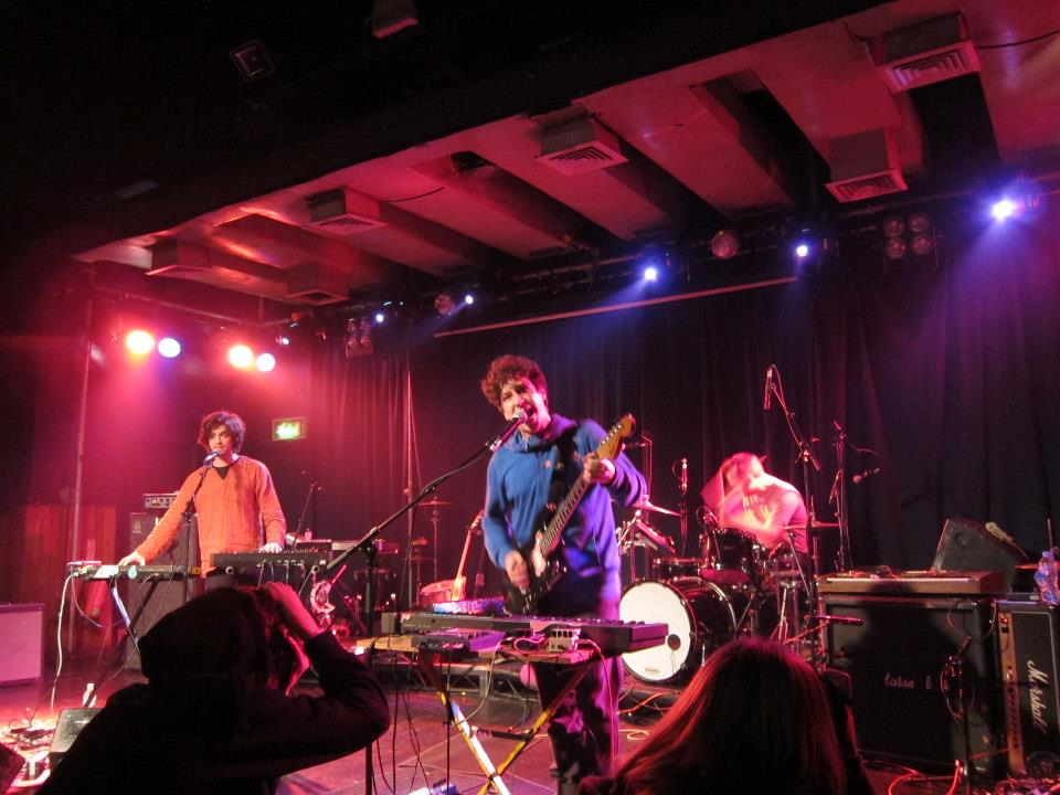 Emperor Yes onstage at the Scala, London. 7 March 2013.